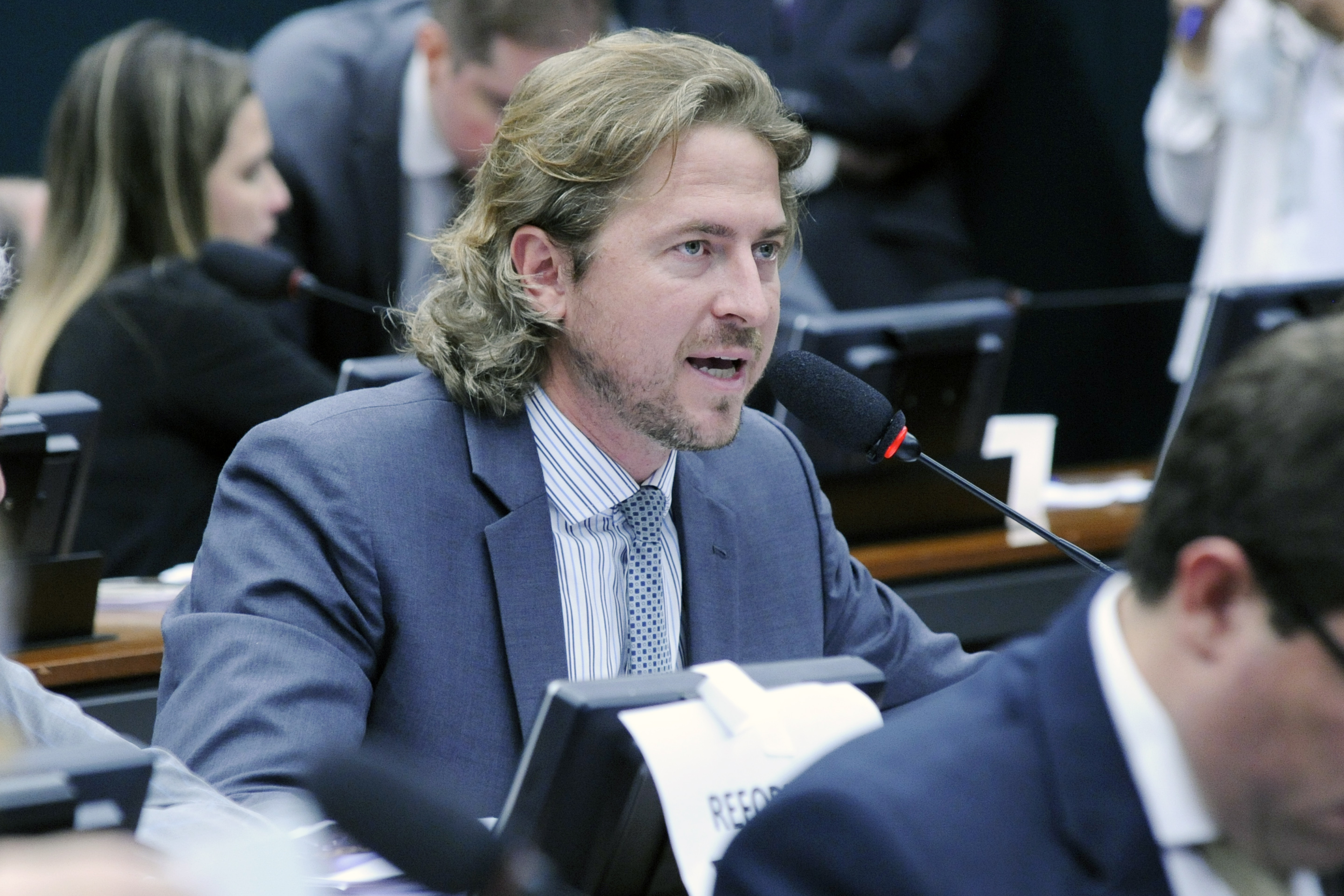 Congressman Zeca Dirceu (PT - PR) in a public hearing on the reform of Social Security, in the CCJC - Commission for Constitution and Justice and Citizenship of the Chamber of Deputies.